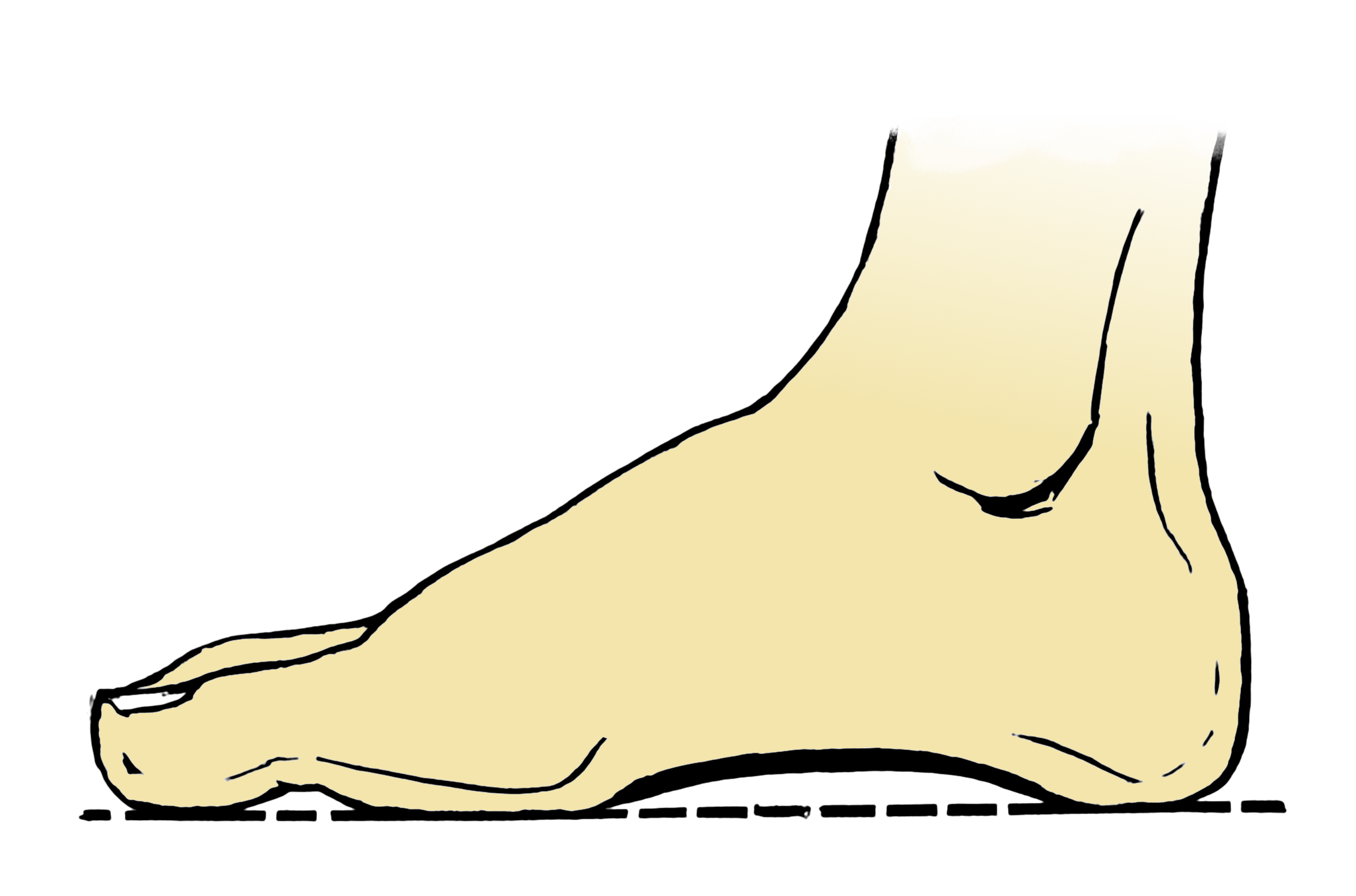 Foot Arche